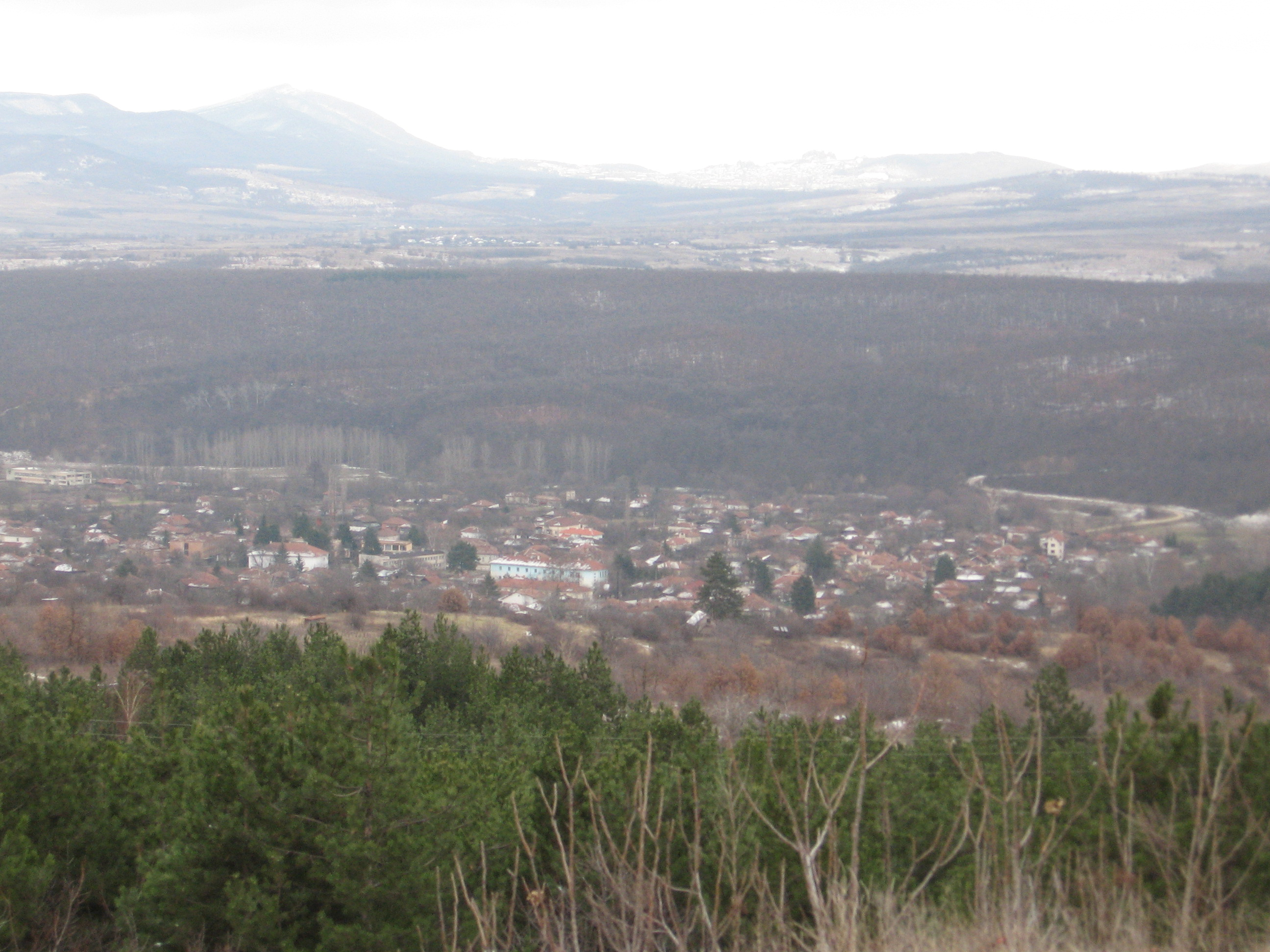 Rabisha